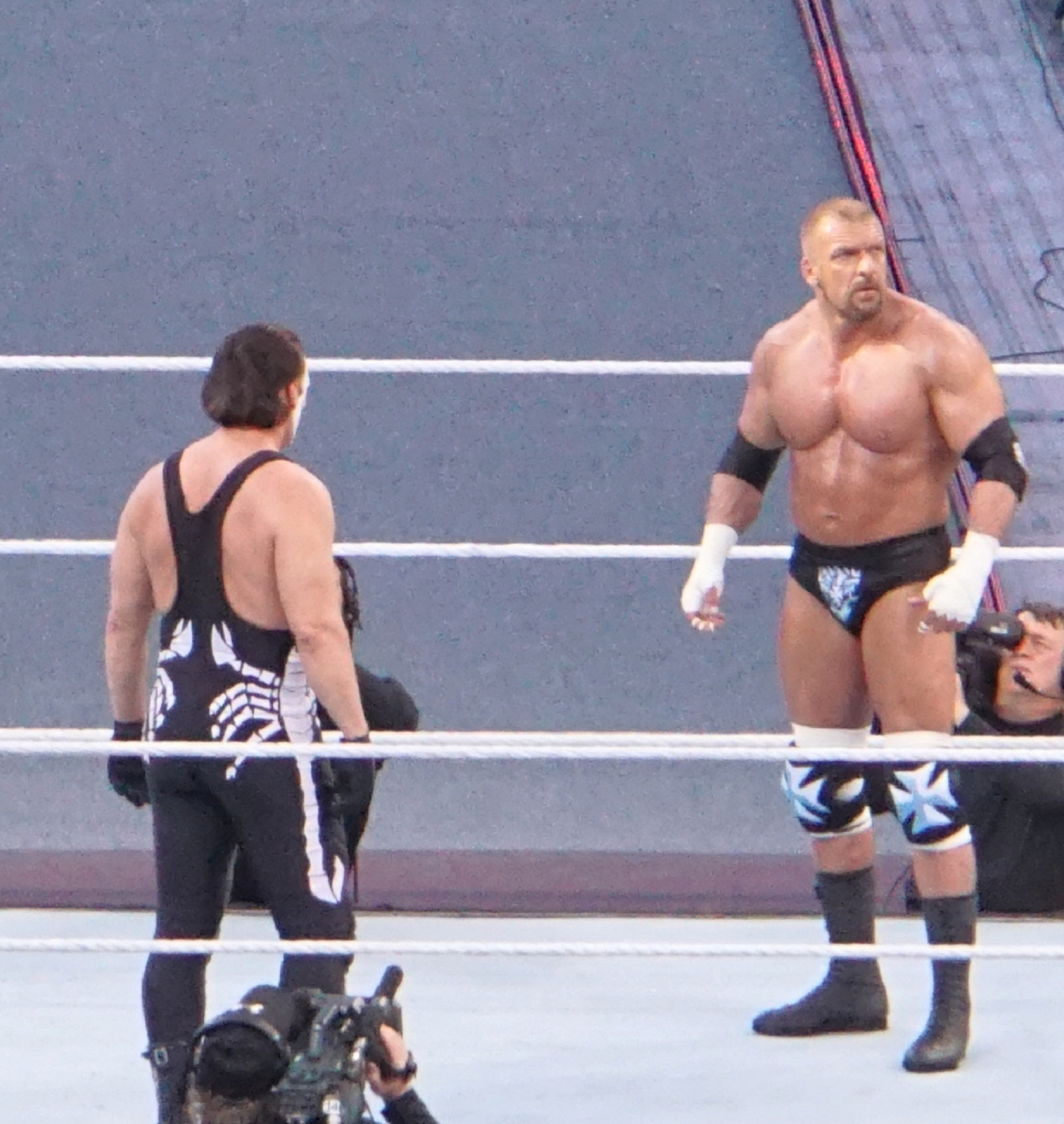 Triple H vs. Sting in WrestleMania 31.